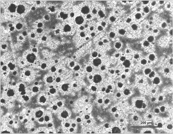 Light optical micrograph of polished and etched ductile iron from lawnmower camshaft. Etched in 3% Nital. 100X.